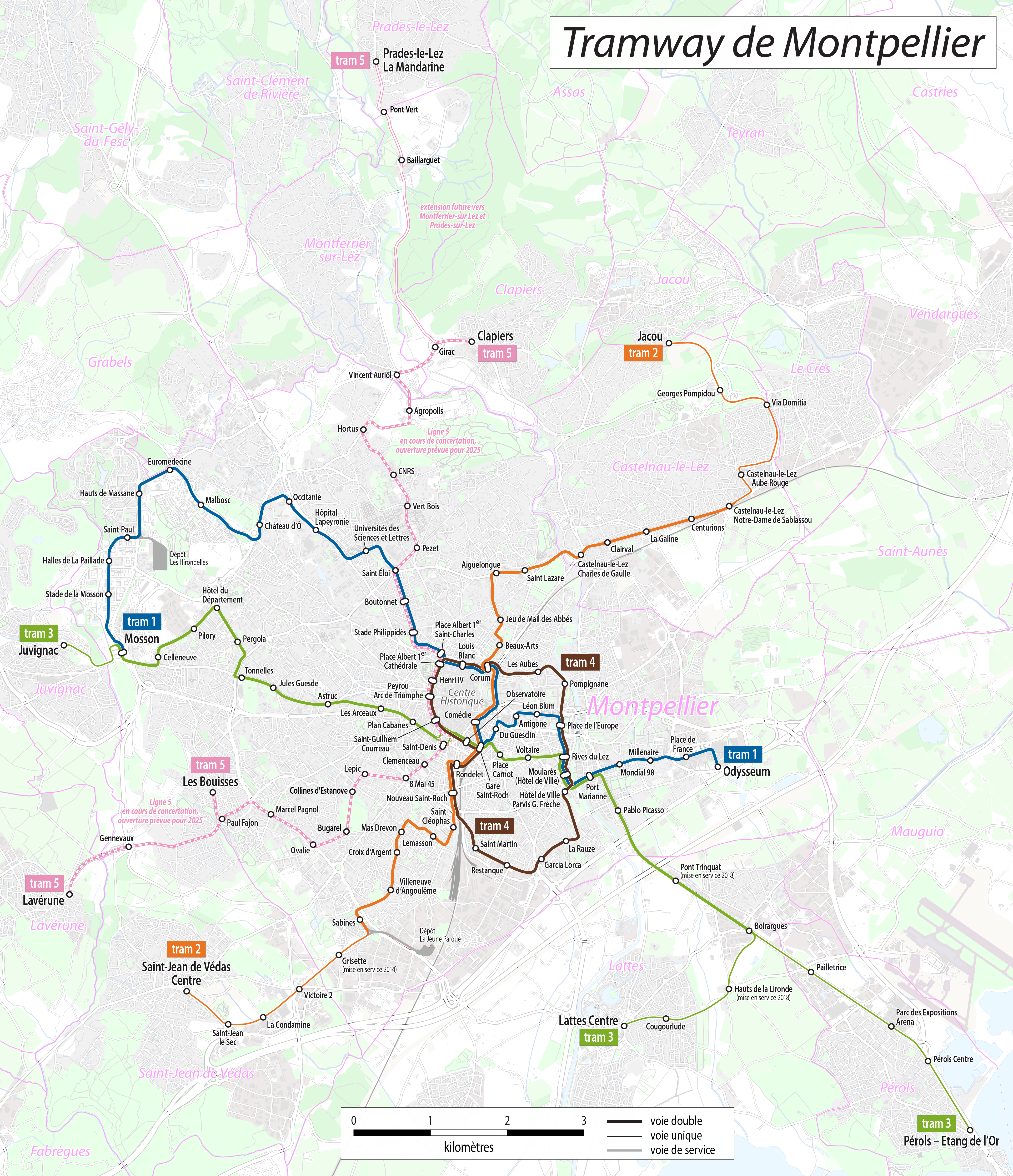 Map of Montpellier streetcar network 2012.